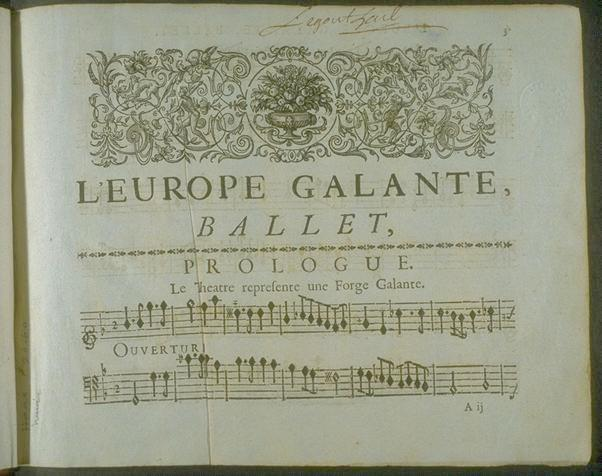 Score of André Campra's L'Europe Galante